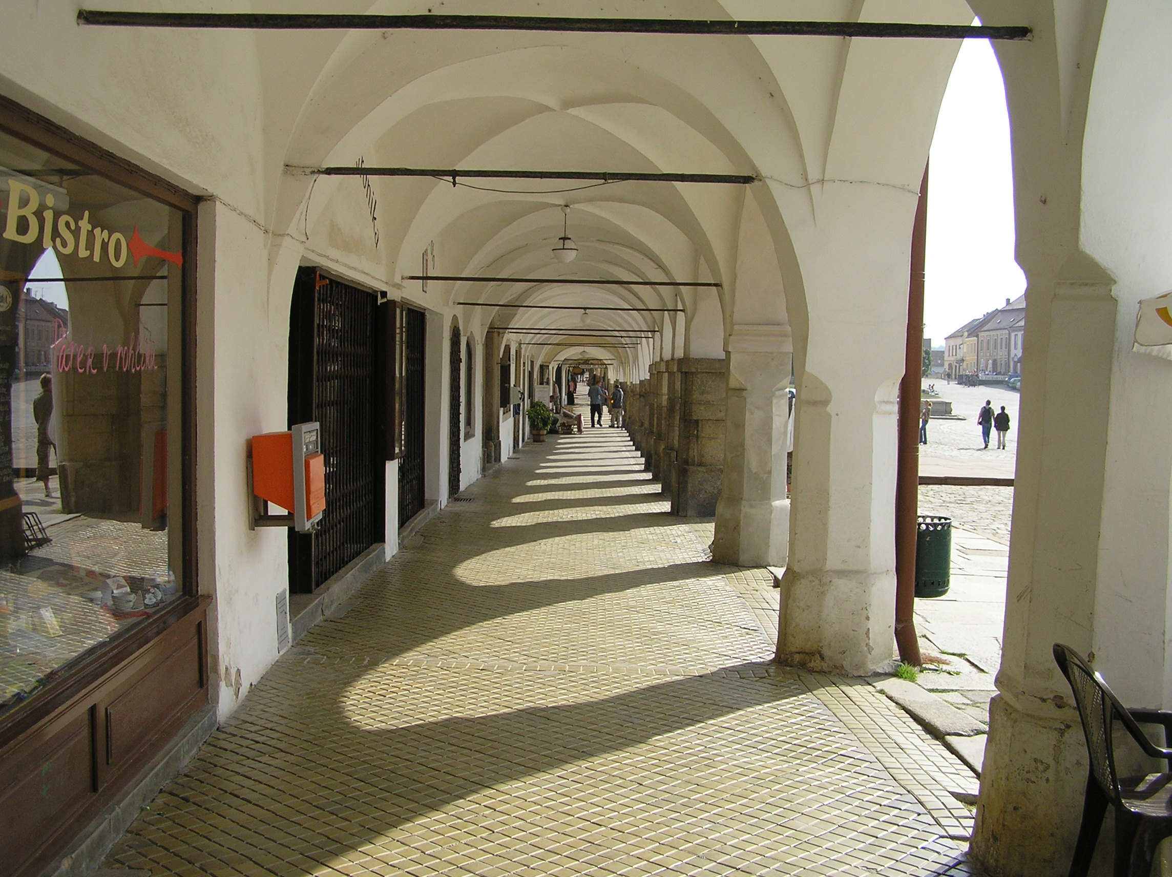 A covered arcade along Náměstí Zachariáše z Hradce, the main square of Telč, Moravia, Vysočina Region, Czech Republic.